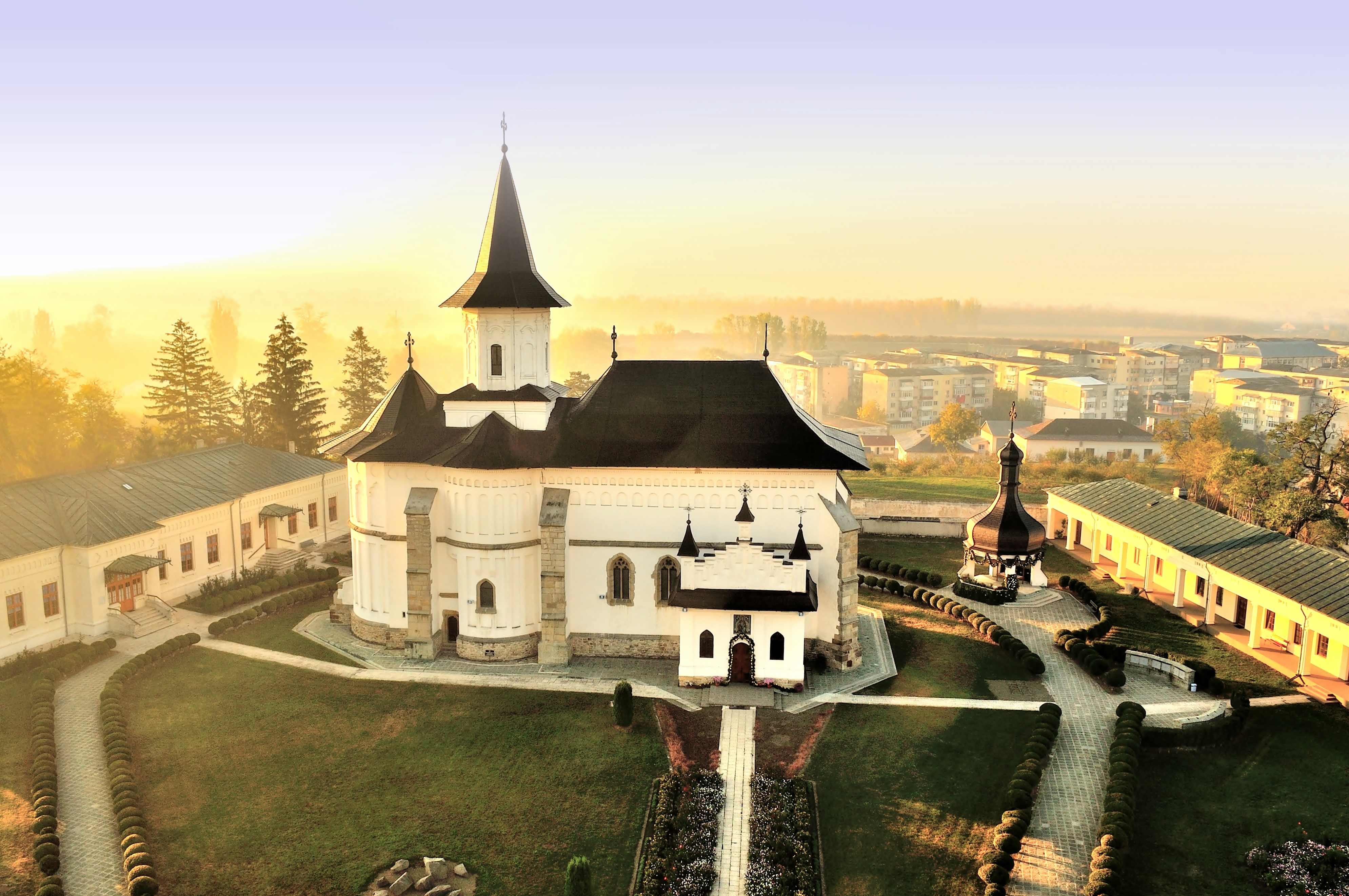 Archdiocese Roman and Bacau is an ecclesiastical unit of the Romanian Orthodox Church, located in cityRoman, Neamt County canonical jurisdiction in Bacau part of the Metropolitan of Moldavia and Bukovina. The holder of this Archdiocese is Eftimie Luke in 1978 as bishop and auxiliary bishop of the Archdiocese is PS Joachim Bacauanul in 2000. He was elevated to the Archdiocese on September 13, 2009. 01